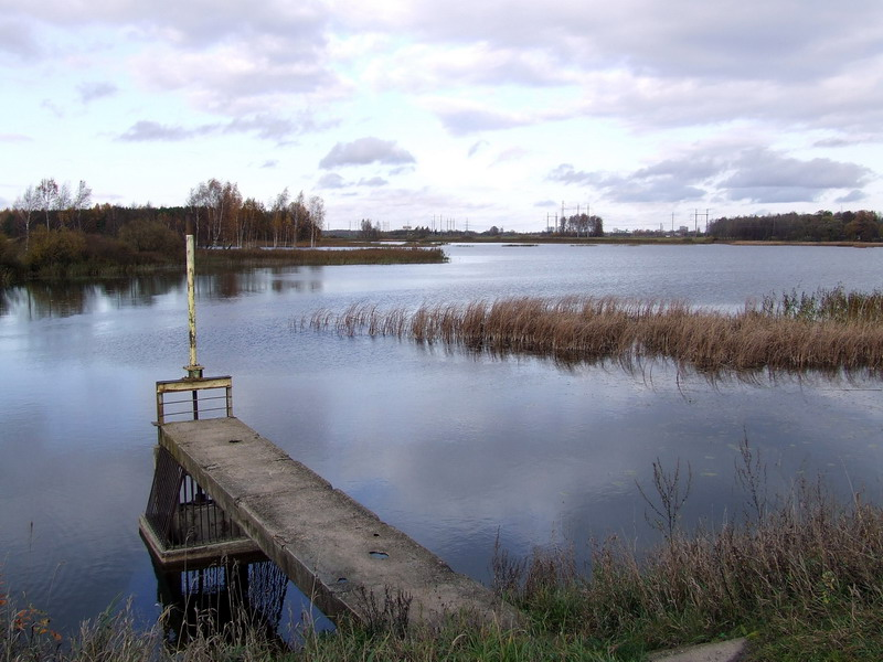 Paviešiečiai pond, Panevėžys district, Lithuania.